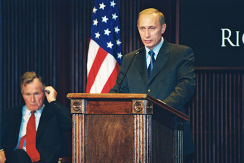 HOUSTON, TEXAS. President Vladimir Putin making a public address at Rice University.